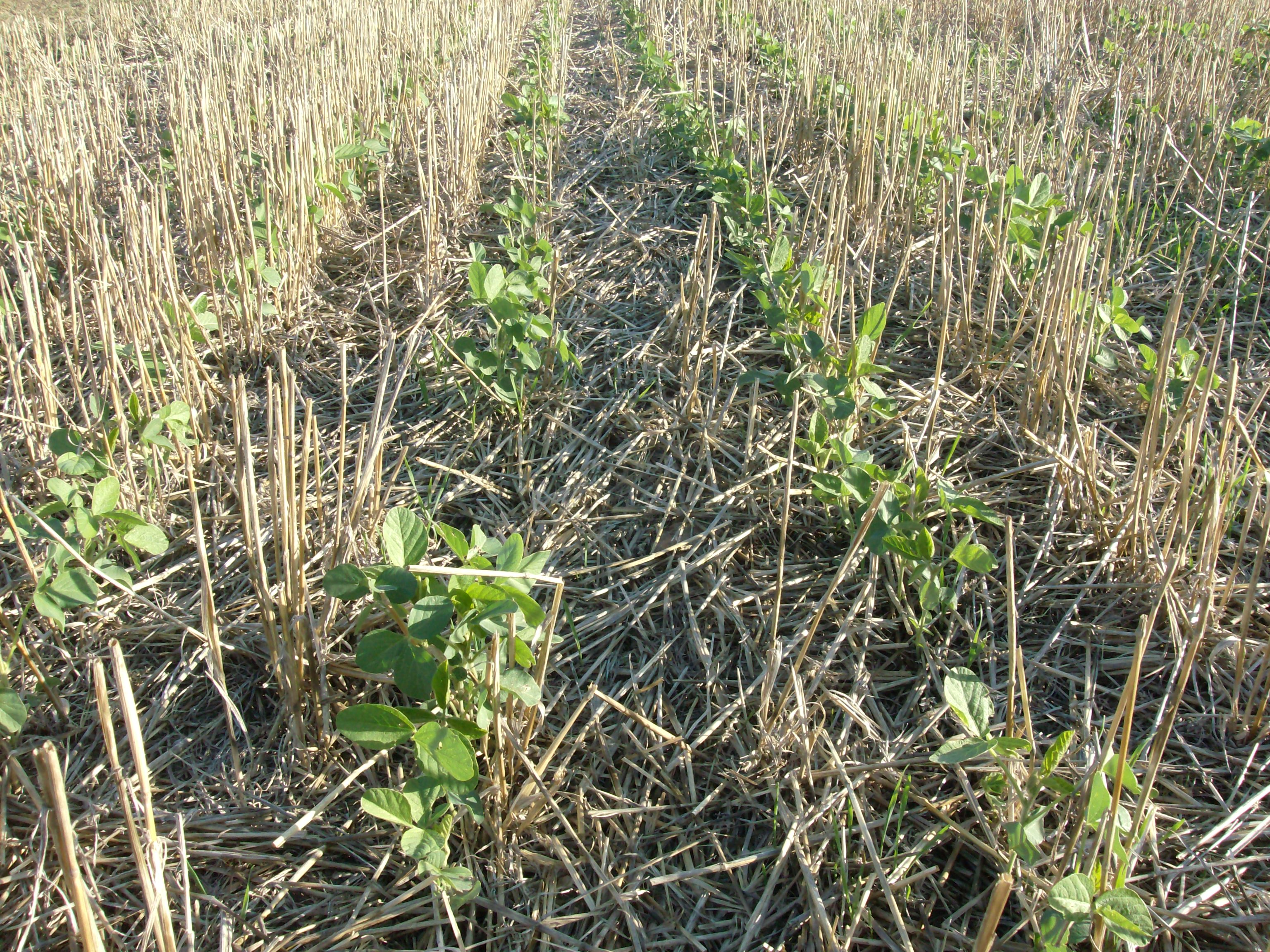 No-till farming. Soybean plants growing on a wheat crop already harvested.